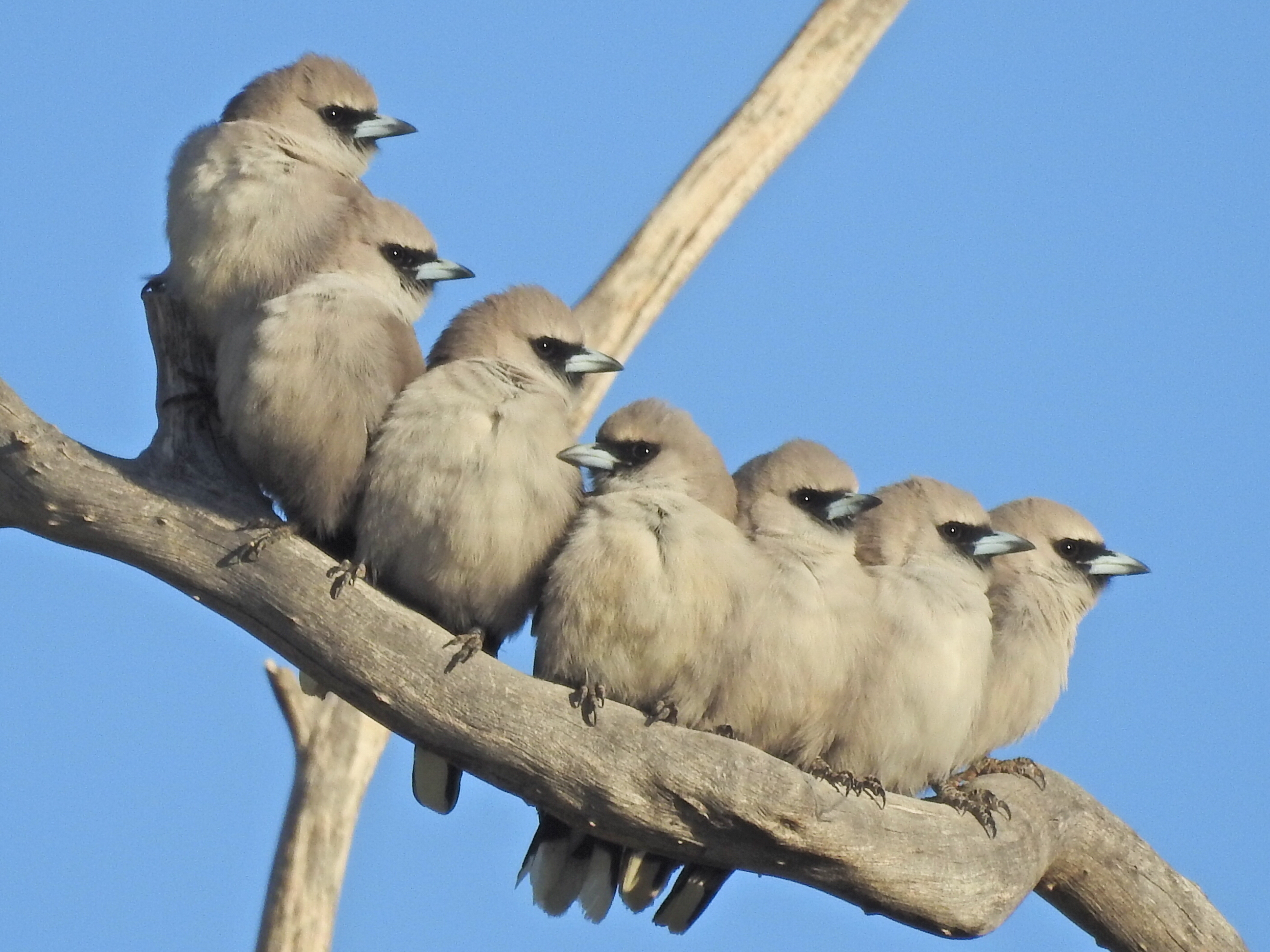 Black faced wood-swallows huddling for warmth